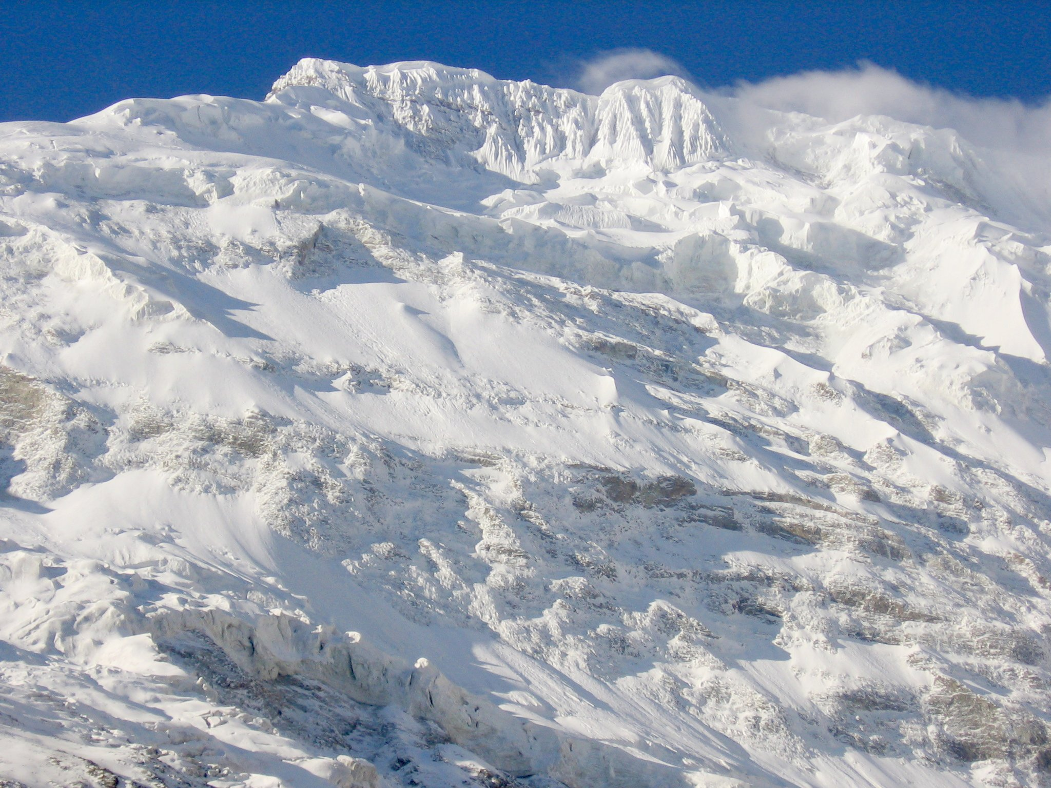 Oytak valley, close to Karakoram Highway in Xinjiang province (China).